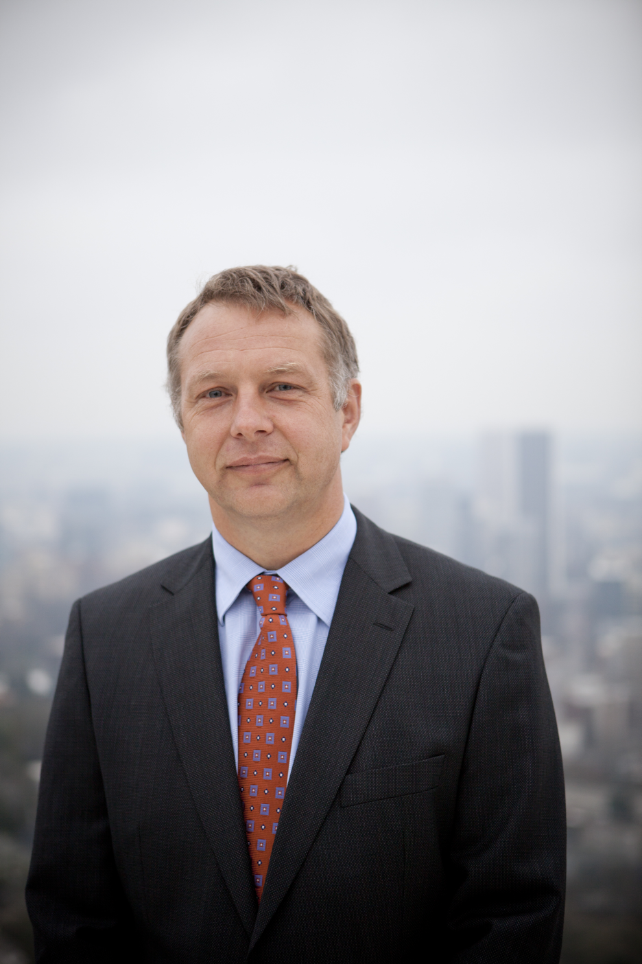 People portrait